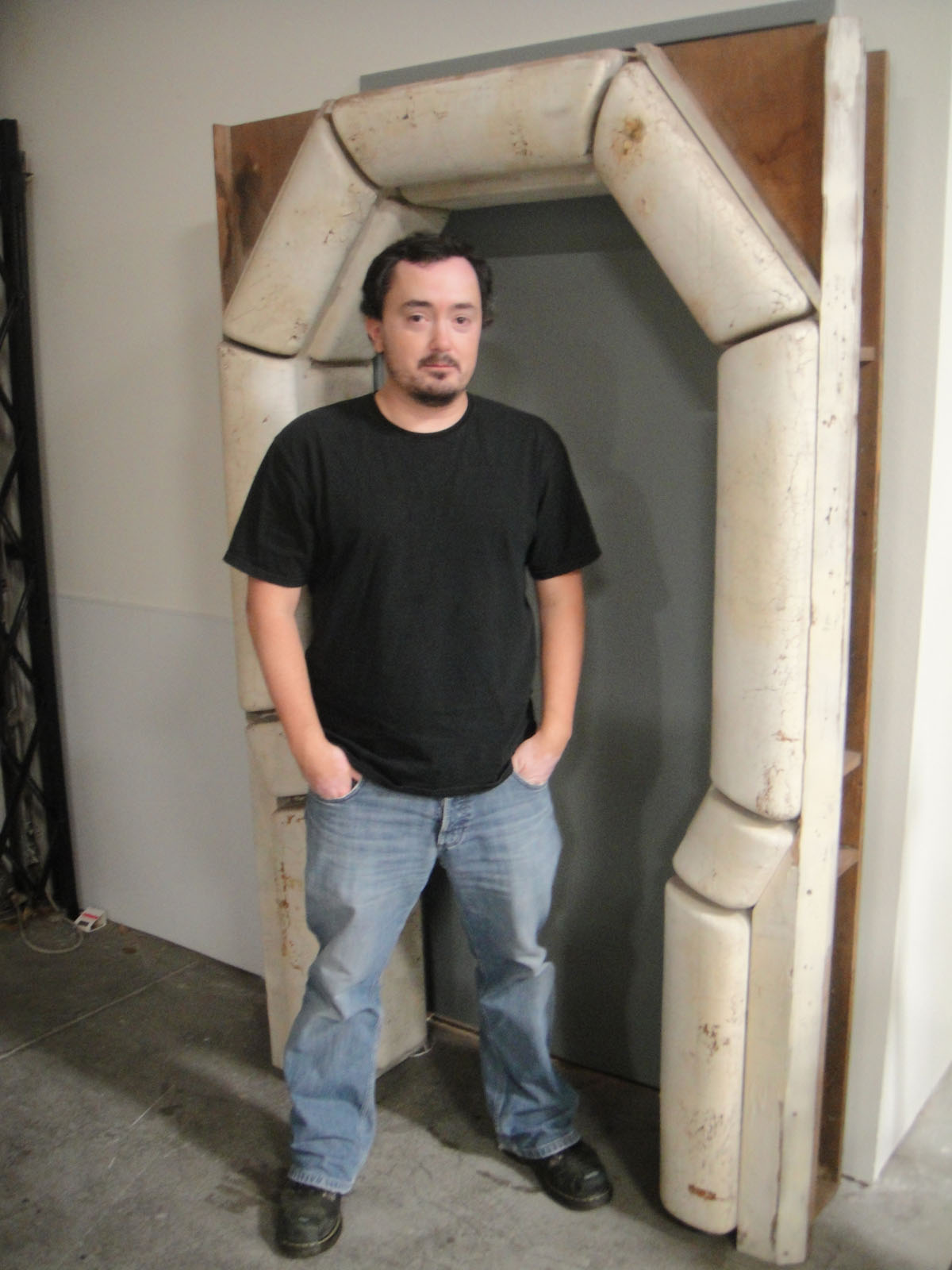 photo 2011 Pop Culture Geek taken by Doug Kline If you're interested in higher resolution versions of my images, contact me via my profile page.